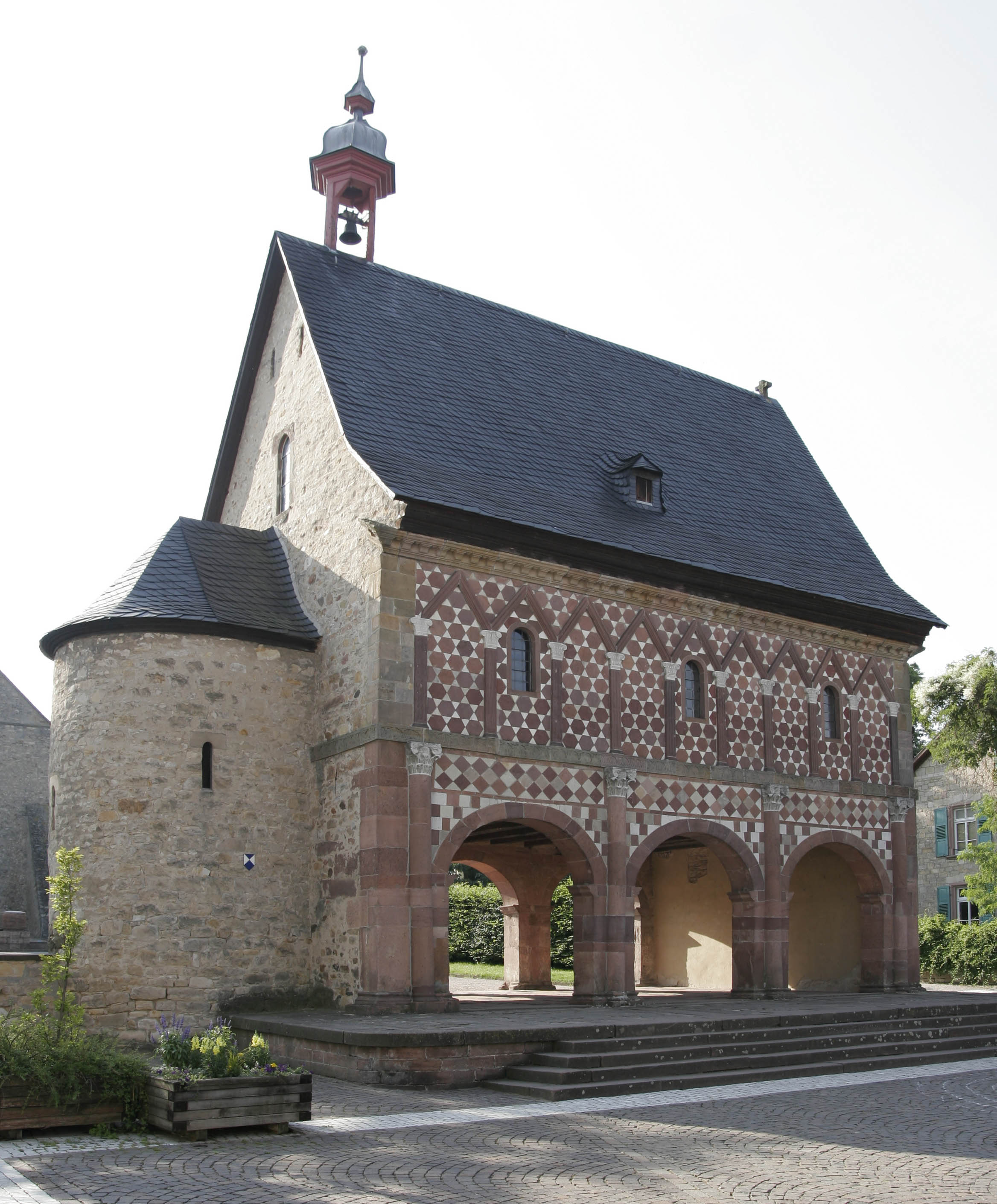 The Königshalle (Kingshall) of Lorsch Abbey.